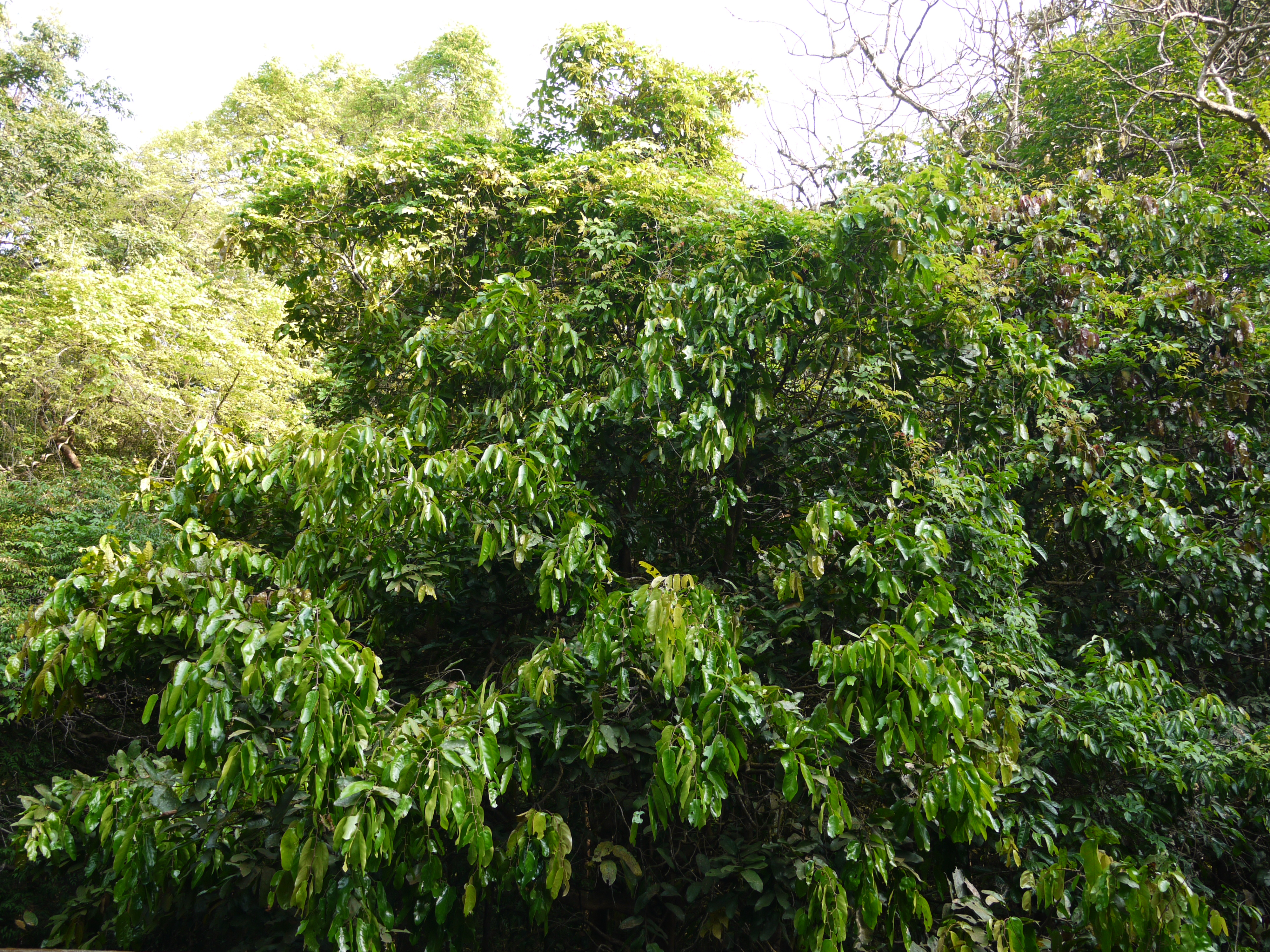 Dipterocarpaceae (sal family) » Hopea ponga HOPE-ee-uh -- named for John Hope, professor of Botany at Edinburgh pon-GAH -- from the Malabar name of the plant commonly known as: ponga • Kannada: ಹೈಗ haiga • Konkani: पाव pav • Malayalam: ഇലപ്പൊങ്ങ് ilappong, ഇരുന്വകം irunvakam, കന്വകം kanvakam • Marathi: कवशी kavshi • Tamil: கோங்கு konku Endemic to: central and southern Western Ghats (of India) References: Further Flowers of Sahyadri by Shrikant Ingalhalikar • Biotik • ENVIS - FRLHT • DDSA